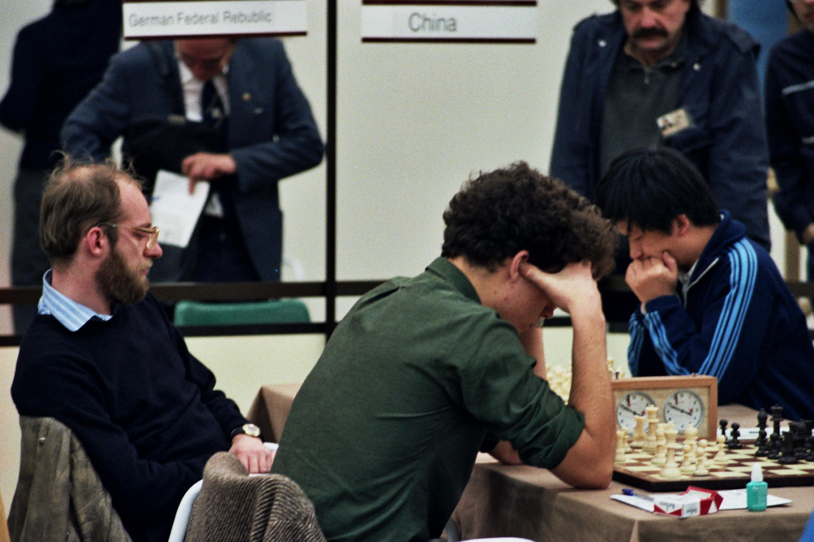 Robert Huebner, Eric Lobron and Qi Jingxuan, Chess Olympiad 1984 in Thessaloniki, Photographer Gerhard Hund.